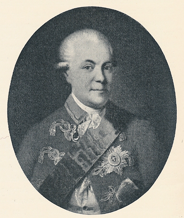 General Hans Henrik von Eickstedt. 1715-1801. One of the two leading officers responsible for carrying out the coup against Struensee.